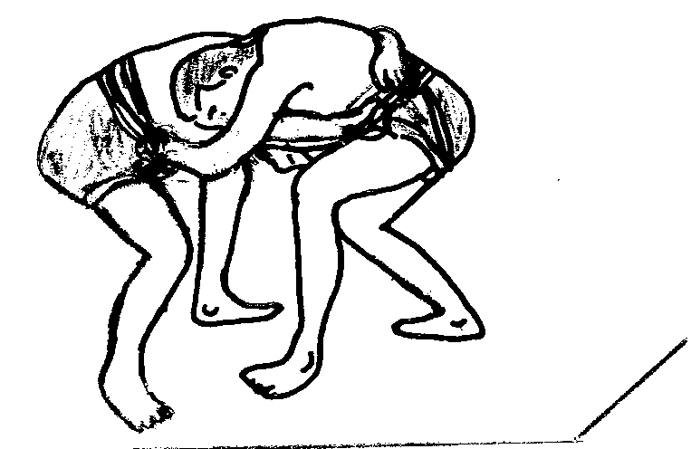 Standing clinch work illustration from Naban Arakan martial arts.